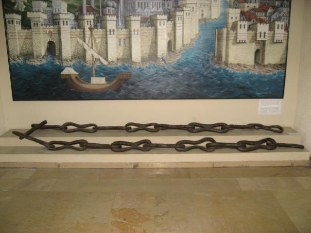 Remains of the Byzantine chain that used to close of the Golden Horn.